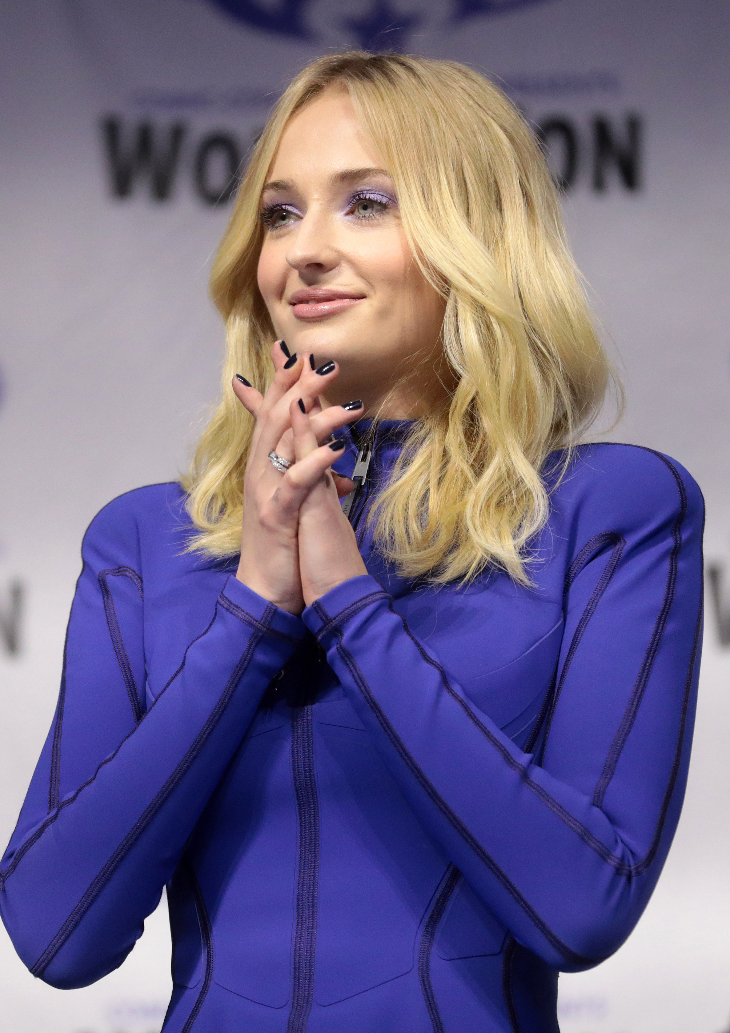 Sophie Turner at the 2019 WonderCon in Anaheim, California.